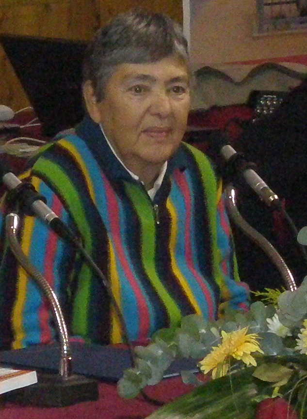 Marina Baričević, art critic, 7. 11. 2009.